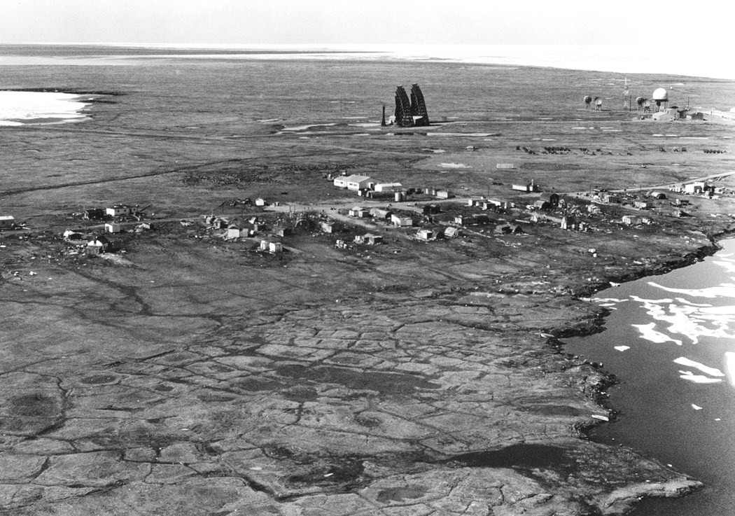 Kaktovik, Alaska, DEW Line Site [1][dead link]